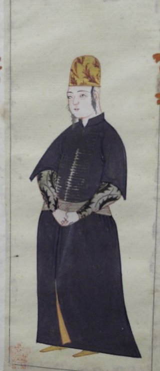 Ottoman Turkish Illustrations from Peter Mundy's Album, "A briefe relation of the Turckes, their kings, Emperors, or Grandsigneurs, their conquests, religion, customes, habbits, etc" - Istanbul 1618